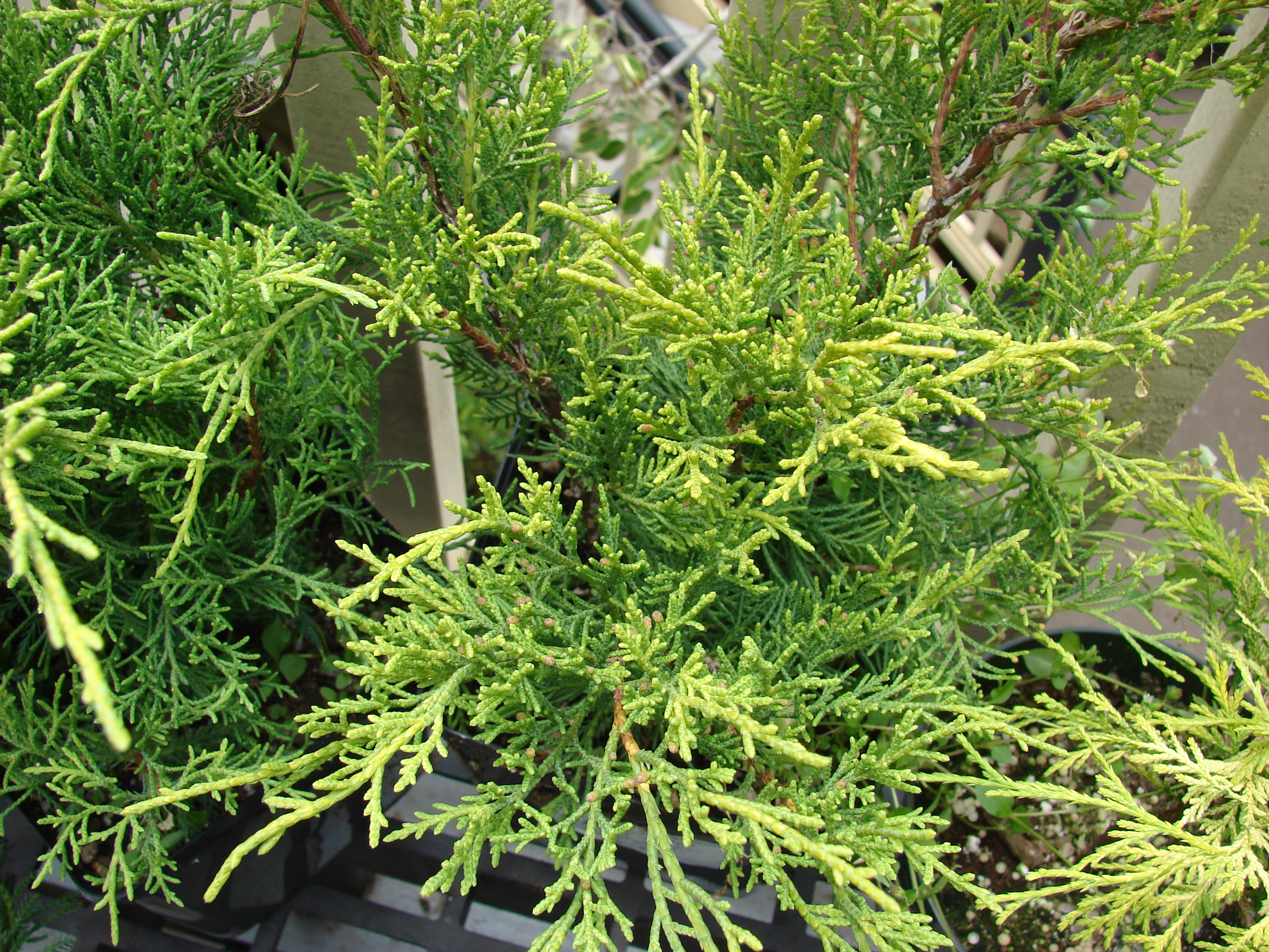 Juniperus chinensis (Old Gold habit). Location: Maui, Kula Ace Hardware and Nursery